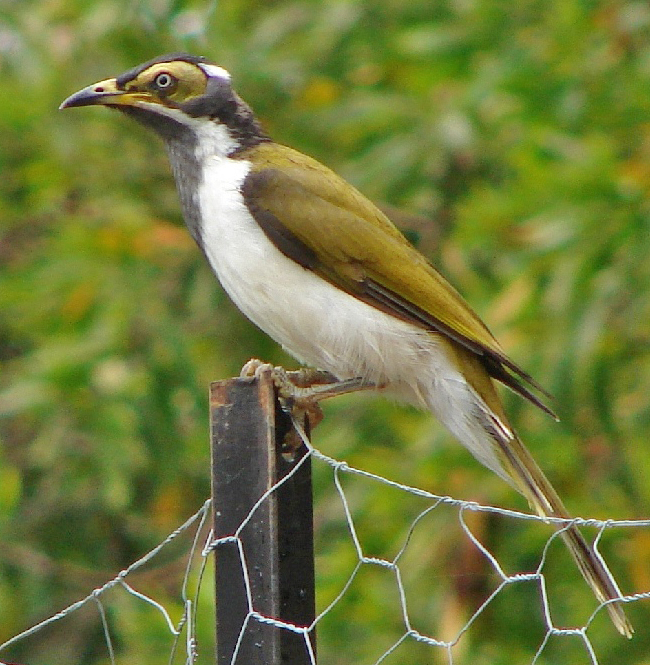 A juvenile Blue-faced Honeyeater near Eumundi, Queensland, Australia. Immature bird, yet to develop his blue face. Location: near Eumundi, QLD, Australia